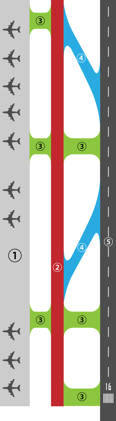 Airport Taxiways 1.（gray）：Apron 2.（red）：Parallel Taxiway 3.(chartreuse）：Taxiway 4.（Blue）：Rapid-exit Taxiways 5.Runway